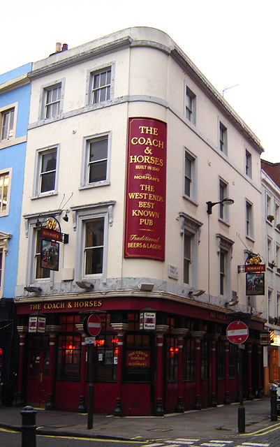 The Coach and Horses pub, Soho, London. 14 January 2006. Photographer: Fin Fahey.